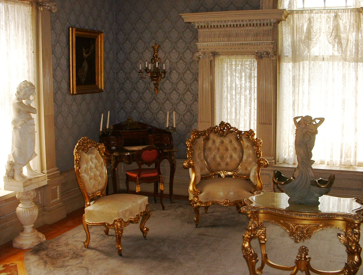 Roberson Mansion, parlor room, in Binghamton, NY